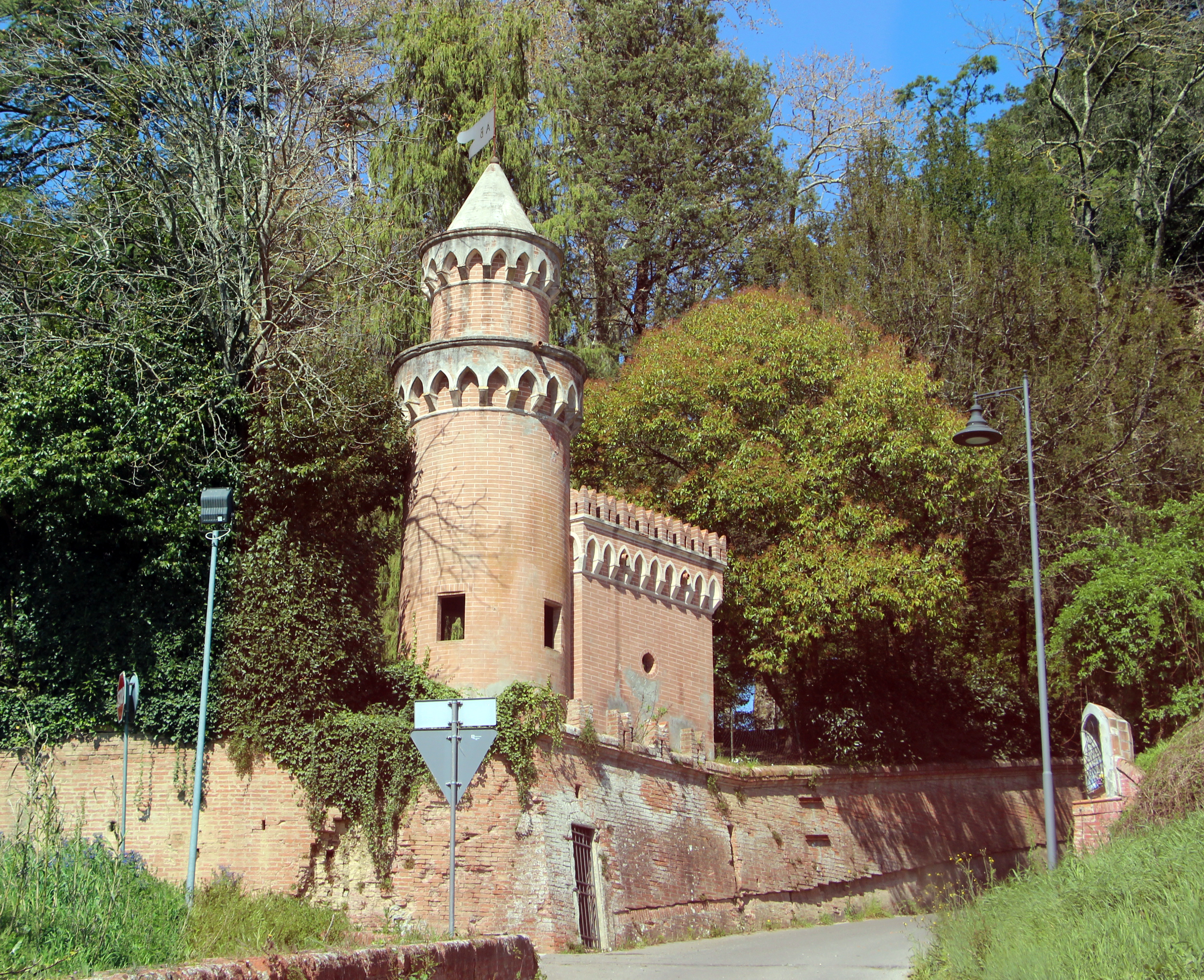 Villa Baciocchi (Capannoli)